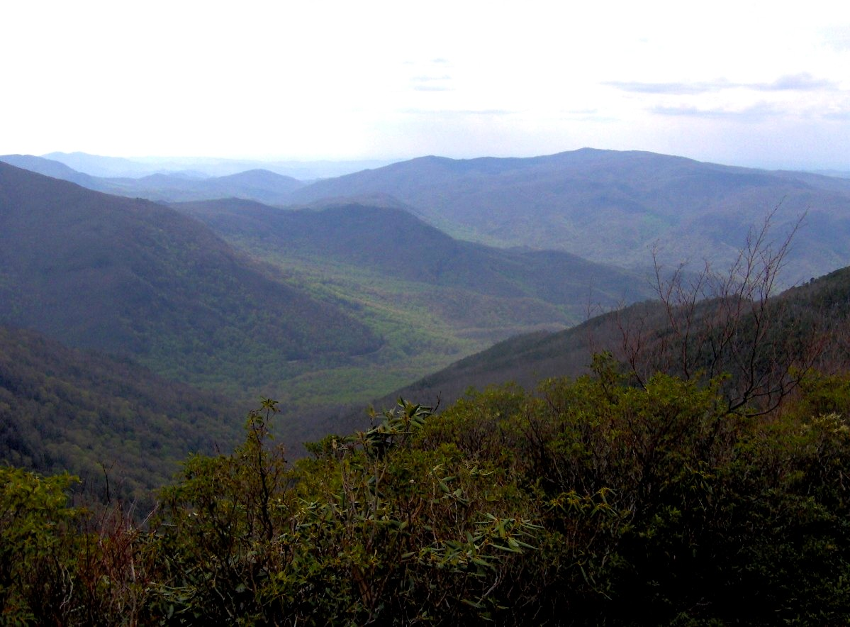 The Sugarlands, looking northwest from Bull Head, in the Great Smoky Mountains National Park. Part of Newfound Gap Road (US-441) can be seen below.